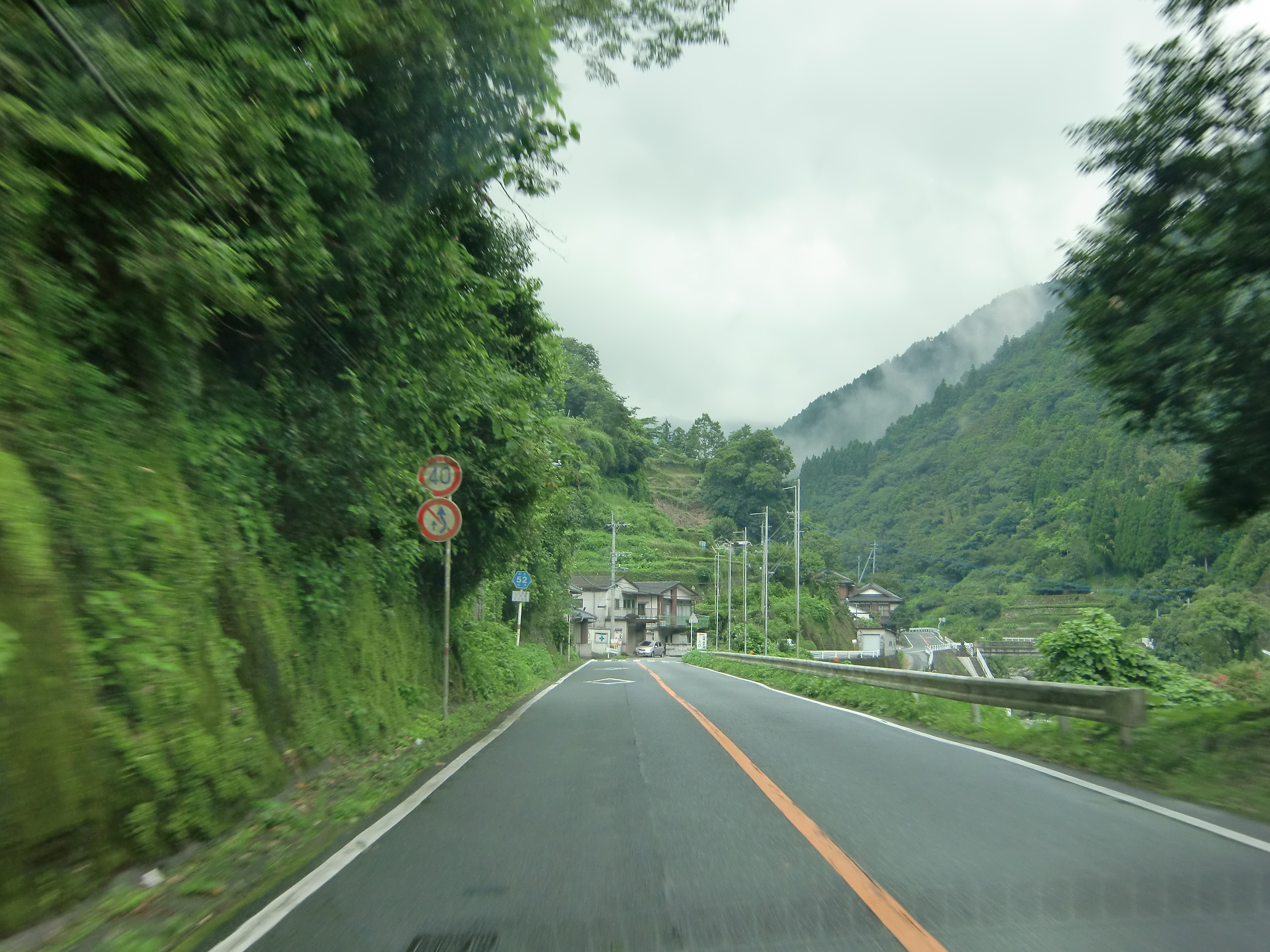 Route52 in Kumamoto Pref.